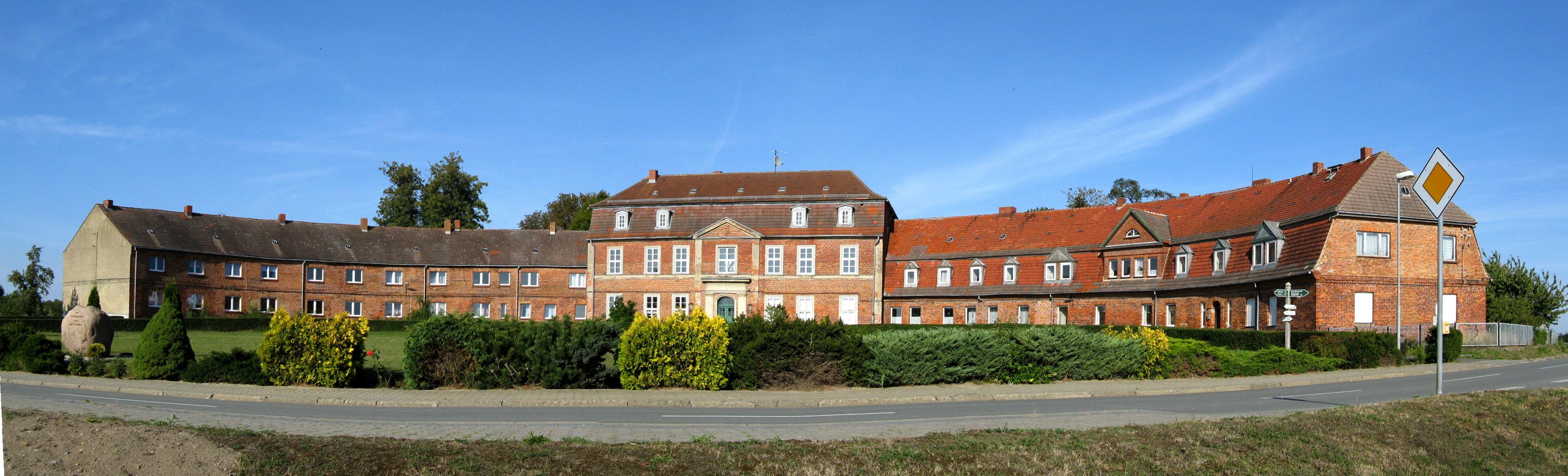 Manor house in Zettemin, disctrict Demmin, Mecklenburg-Vorpommern, Germany